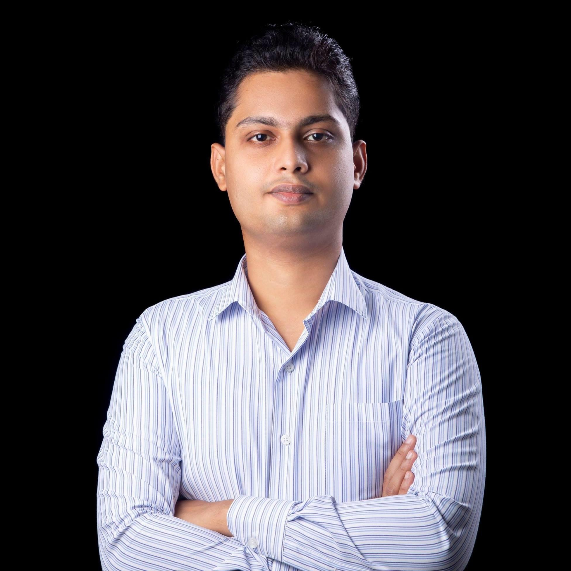 Prabhath Mannapperuma